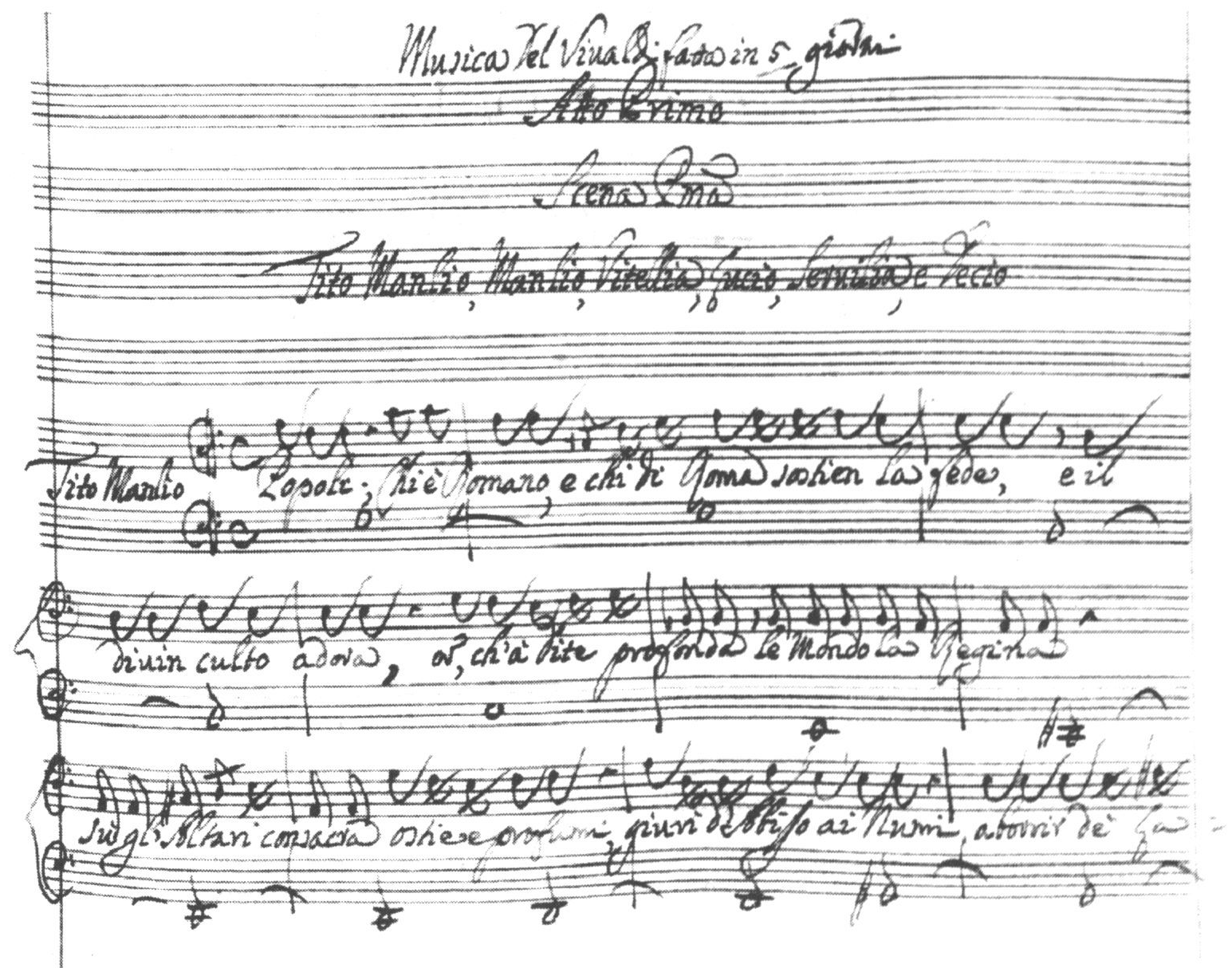 Antonio Vivaldi - Tito Manlio - titlepage of the autograph